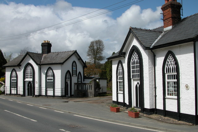 Matching Cottages in Kerry. Both these cottages have mock gothic windows though in fact the effect has been created by black and white paint